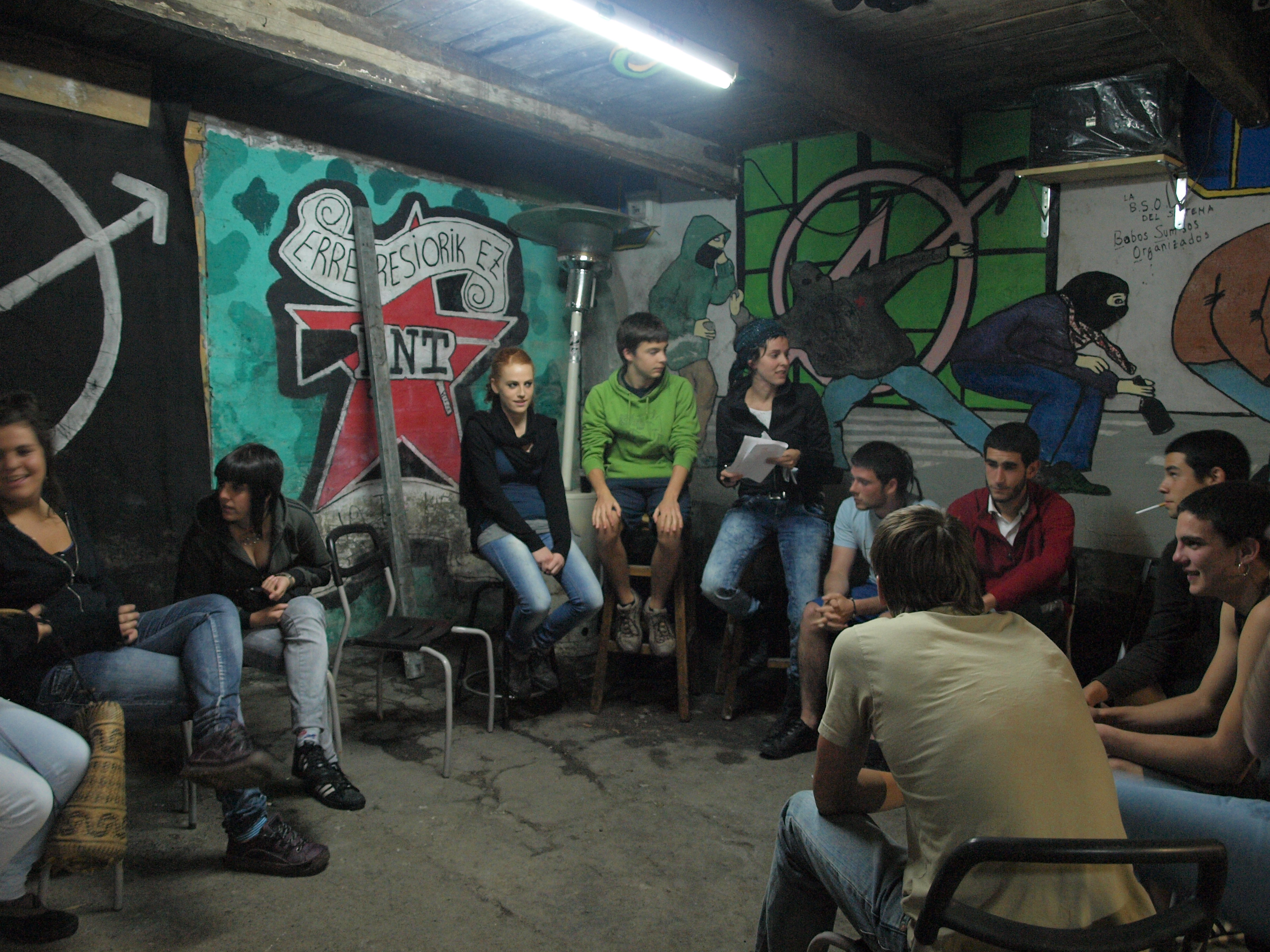 Ikasle Abertzaleak student organization meeting in Getxo, Basque Country.